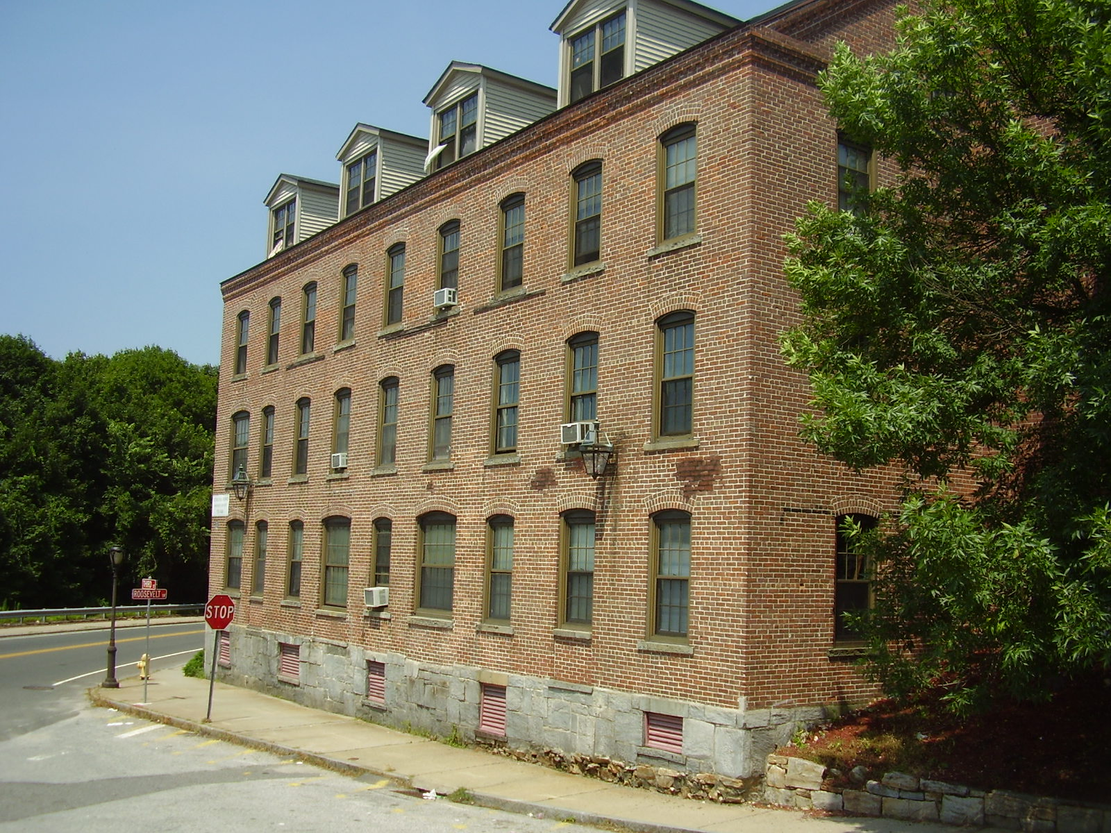 Sterling Rowe Apartment House in Derby, Conn. (aka Kraus Corset Factory building)